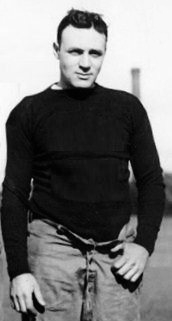 Ralph Horween, during his NFL playing days